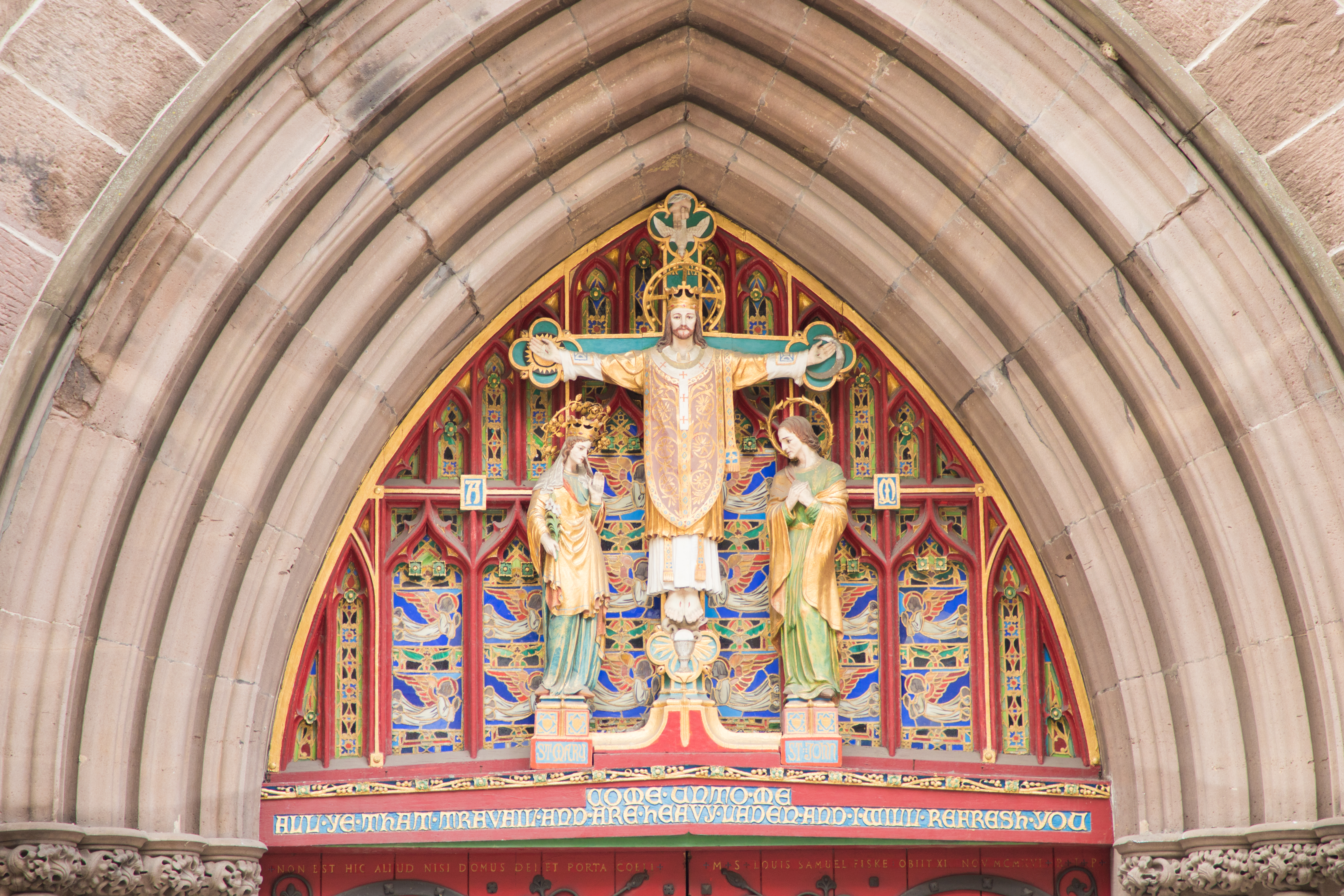 St. Mark's Church, Fiske Doors, Philadelphia, Pennsylvania.